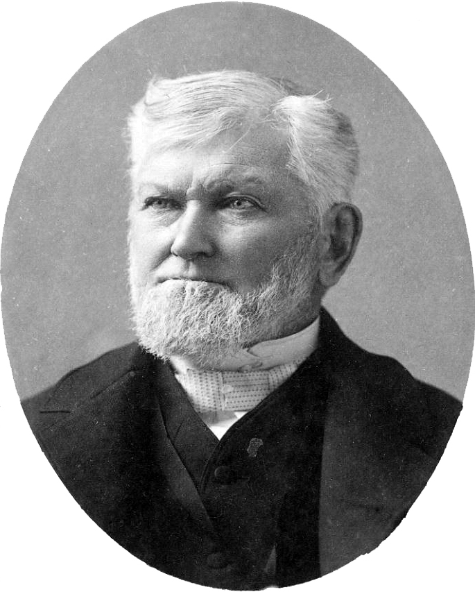 Studio portrait of Wilford Woodruff. Albumen print, originally 4.25×6.5in.